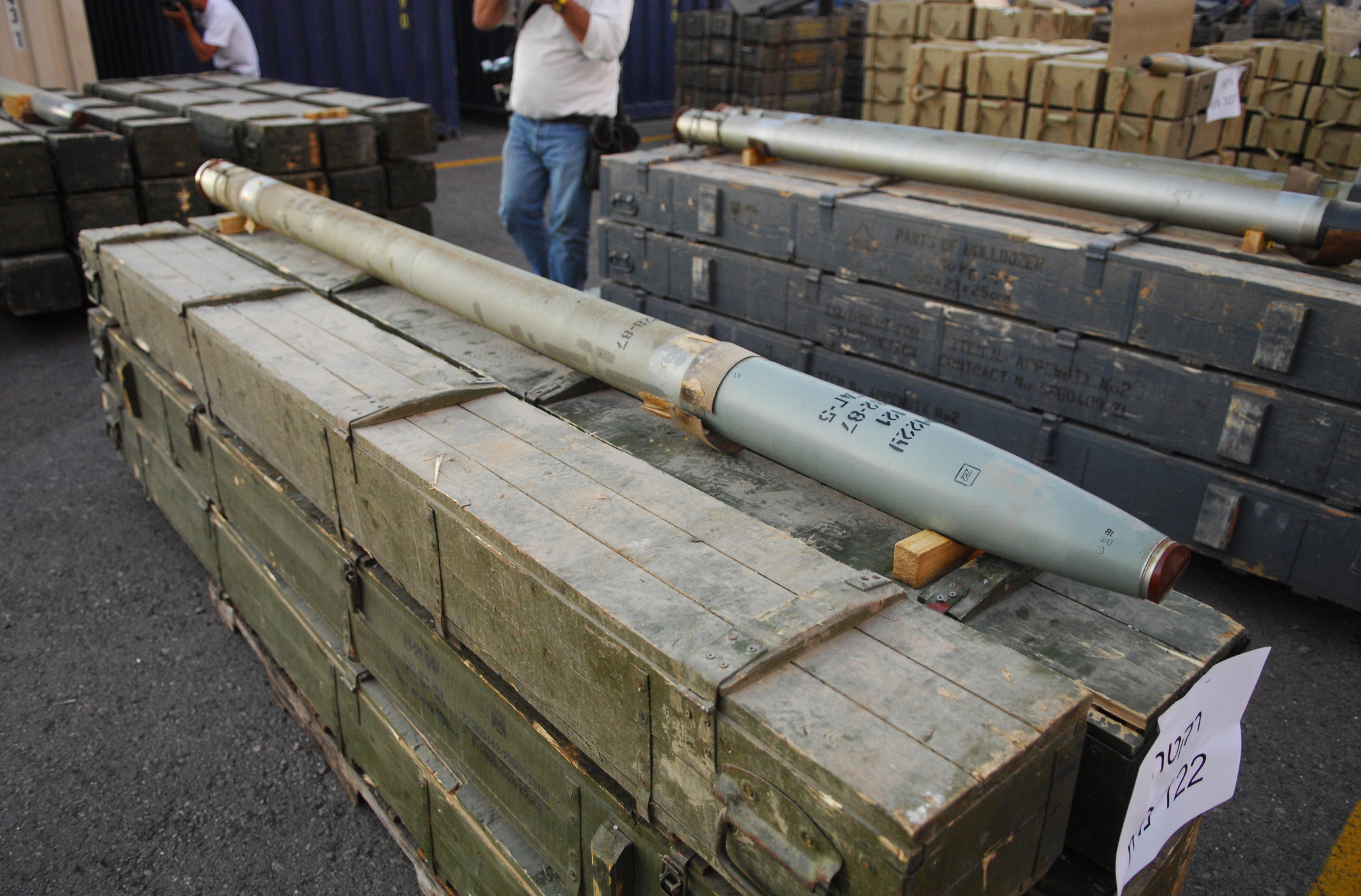 November 4, 2009. Israel Navy forces stopped the cargo ship "Francop" and found missiles, rockets and other weaponry. The ship was brought to the Ashdod port for inspection. Pictured here: Weaponry that was hidden under sacks of Polyethylene that served to disguise it as civilian cargo on the Francop.